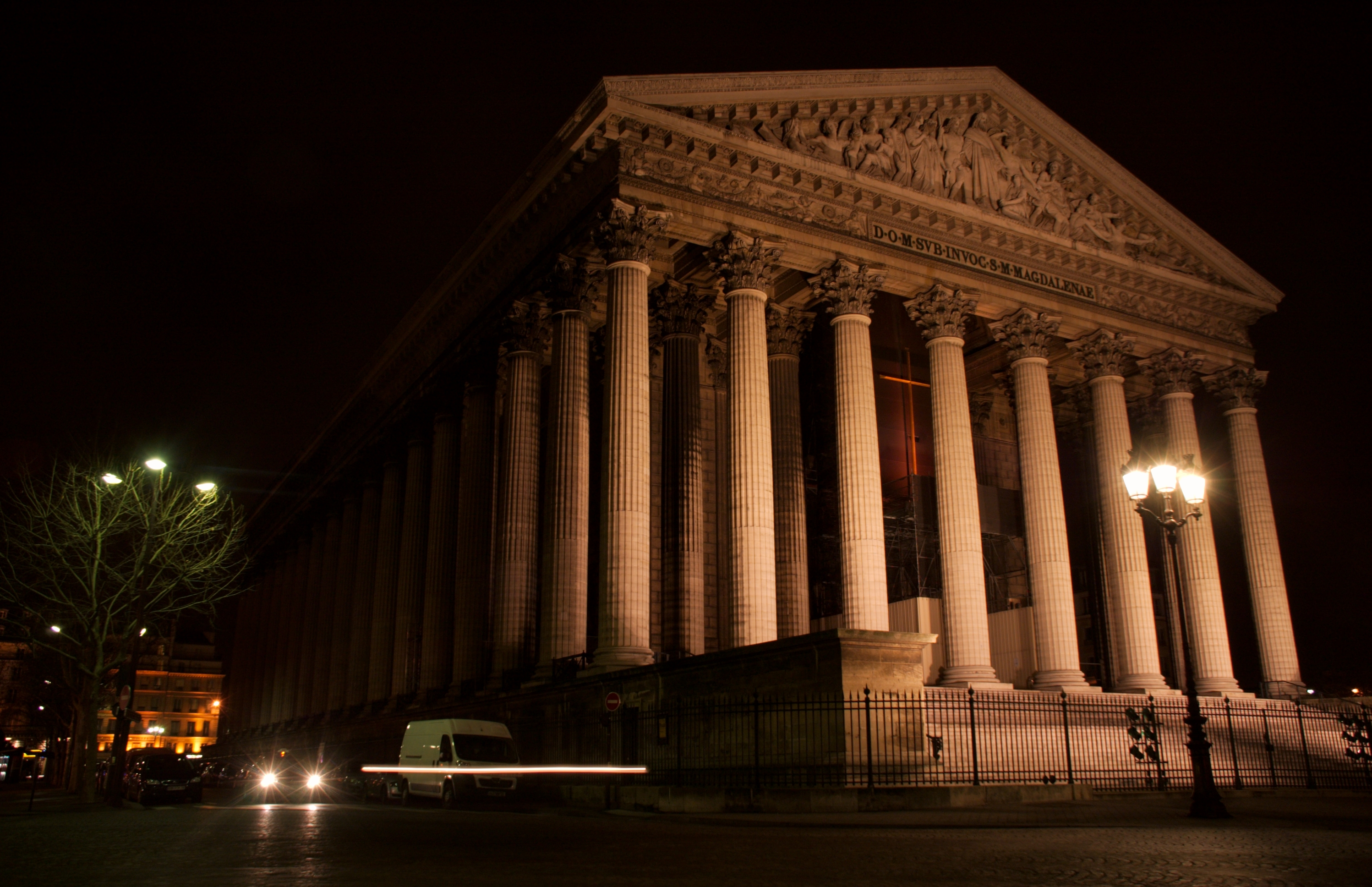 Église de la Madeleine by night.